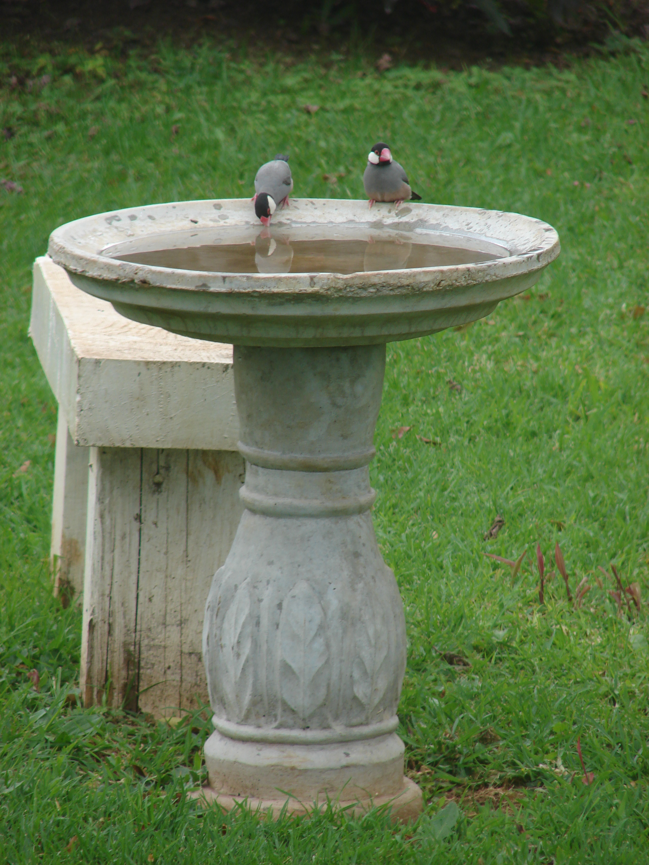 Cordyline fruticosa (habitat with java sparrows at bird bath). Location: Maui, Makawao